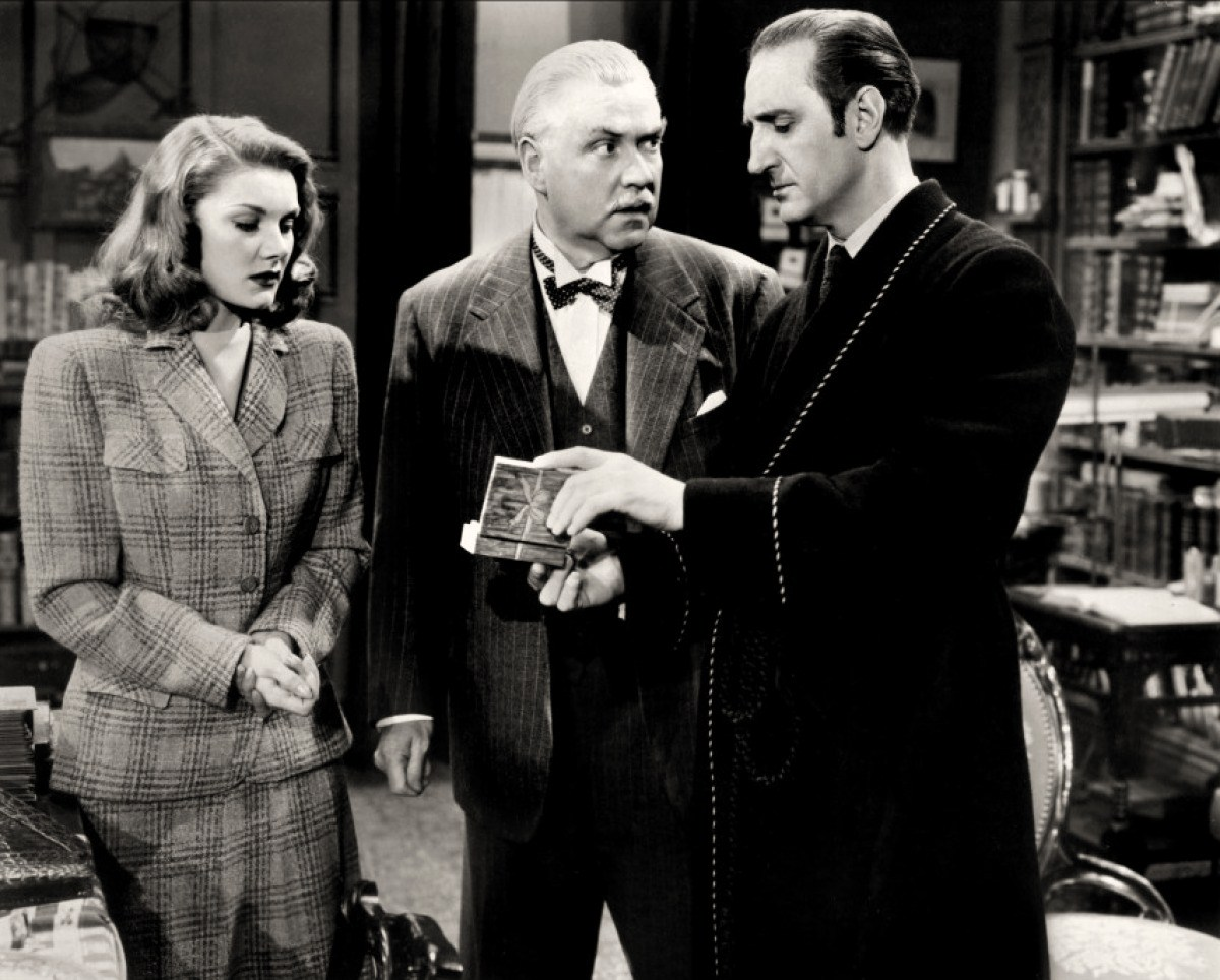 L. to R. : Eve Amber, Nigel Bruce & Basil Rathbone in The Woman in Green